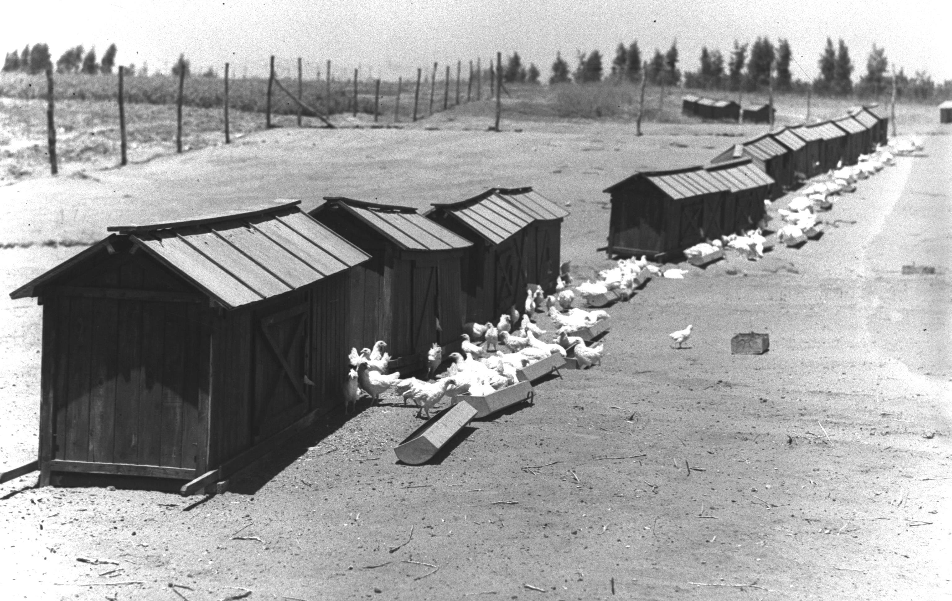 A CHICKEN FARM AT KFAR WARBURG. לול תרנגולות בכפר ורבורג.